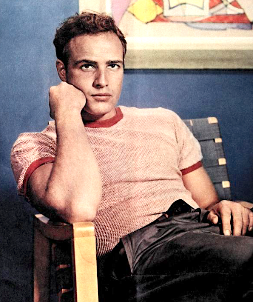 Marlon Brando in 1950